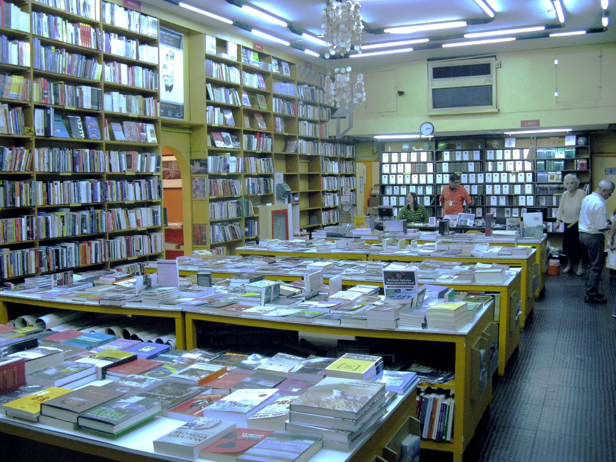 Leonardo Da Vinci bookstore, Rio de Janeiro, Brazil